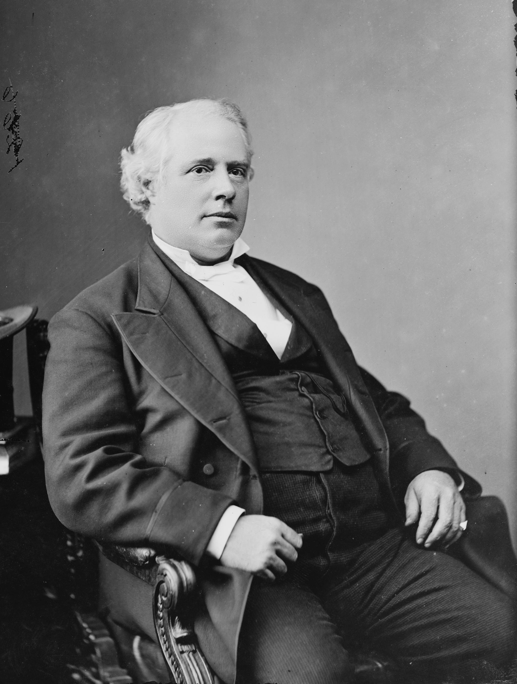 John T. Deweese. Library of Congress description: "Deweese, Hon. John T. of N.C."